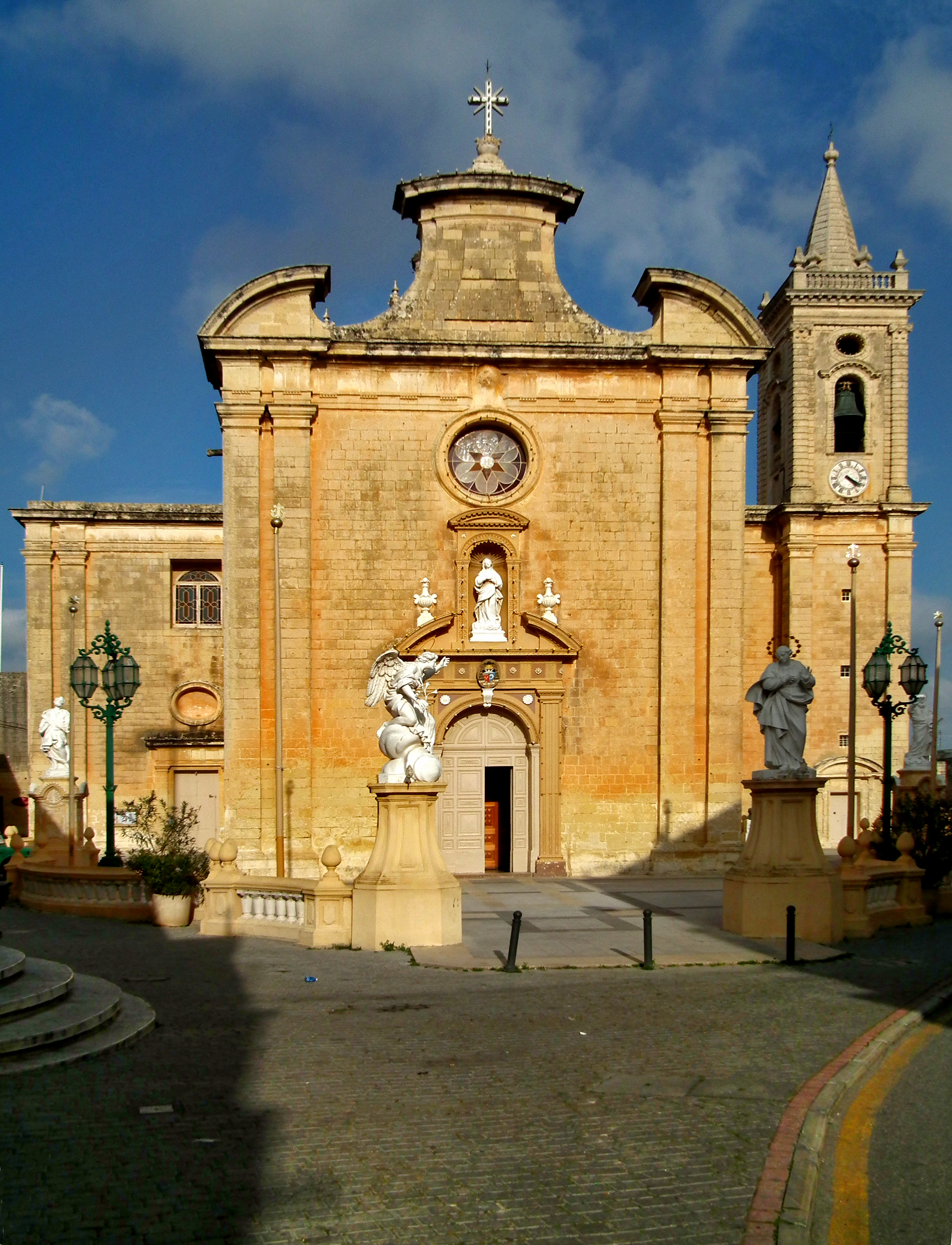 Malta